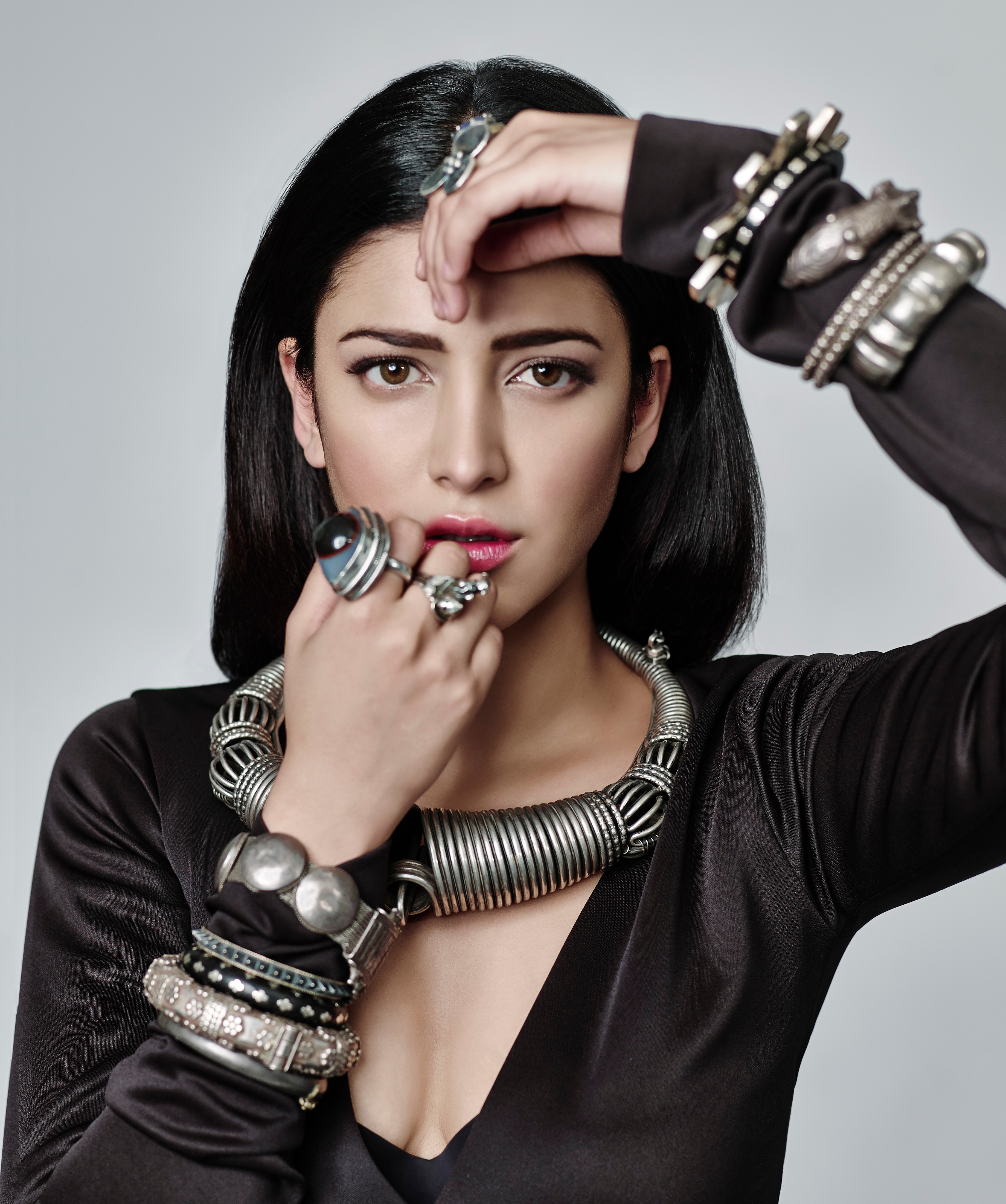 Shruti Haasan